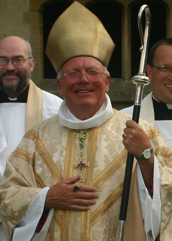 Bishop Edwin Barnes and other clergy